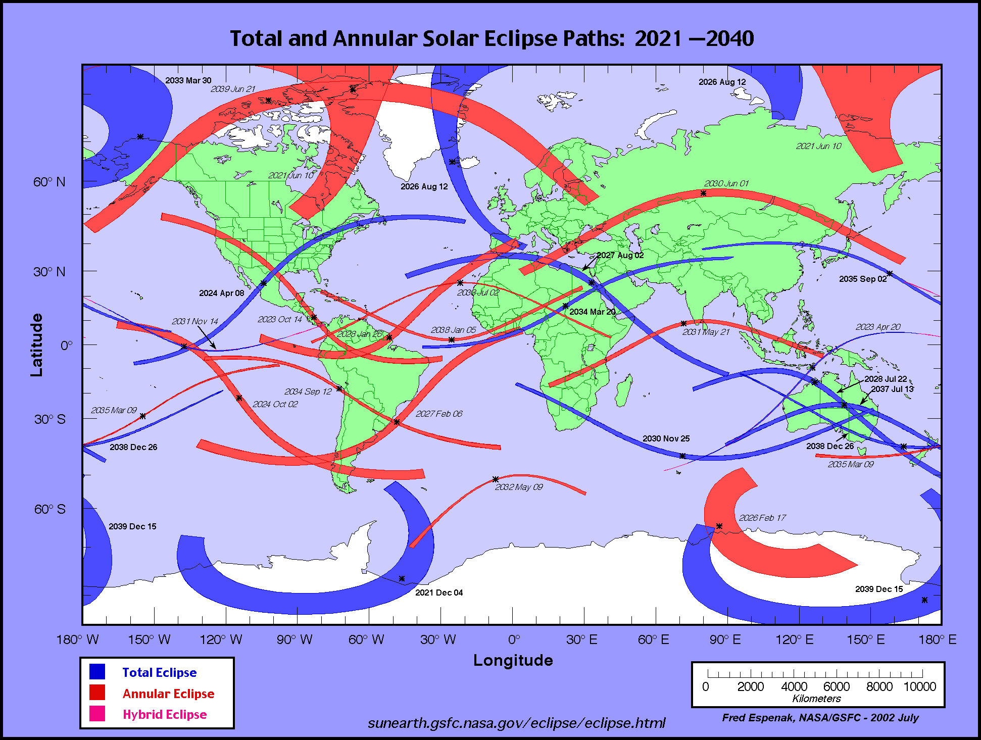 Total and Annular Solar Eclipse Paths